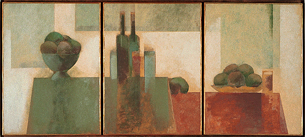 Carlos Scliar: Natureza morta (Tríptico), têmpera encerada sobre tela, 1960, acervo do Museu Museu de Arte do Rio Grande do Sul Ado Malagoli, Porto Alegre, Brasil.